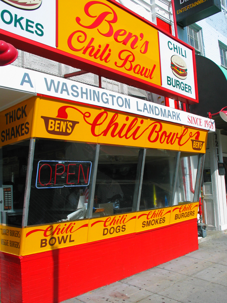 Iconic front of Ben's Chili Bowl, Washington DC.